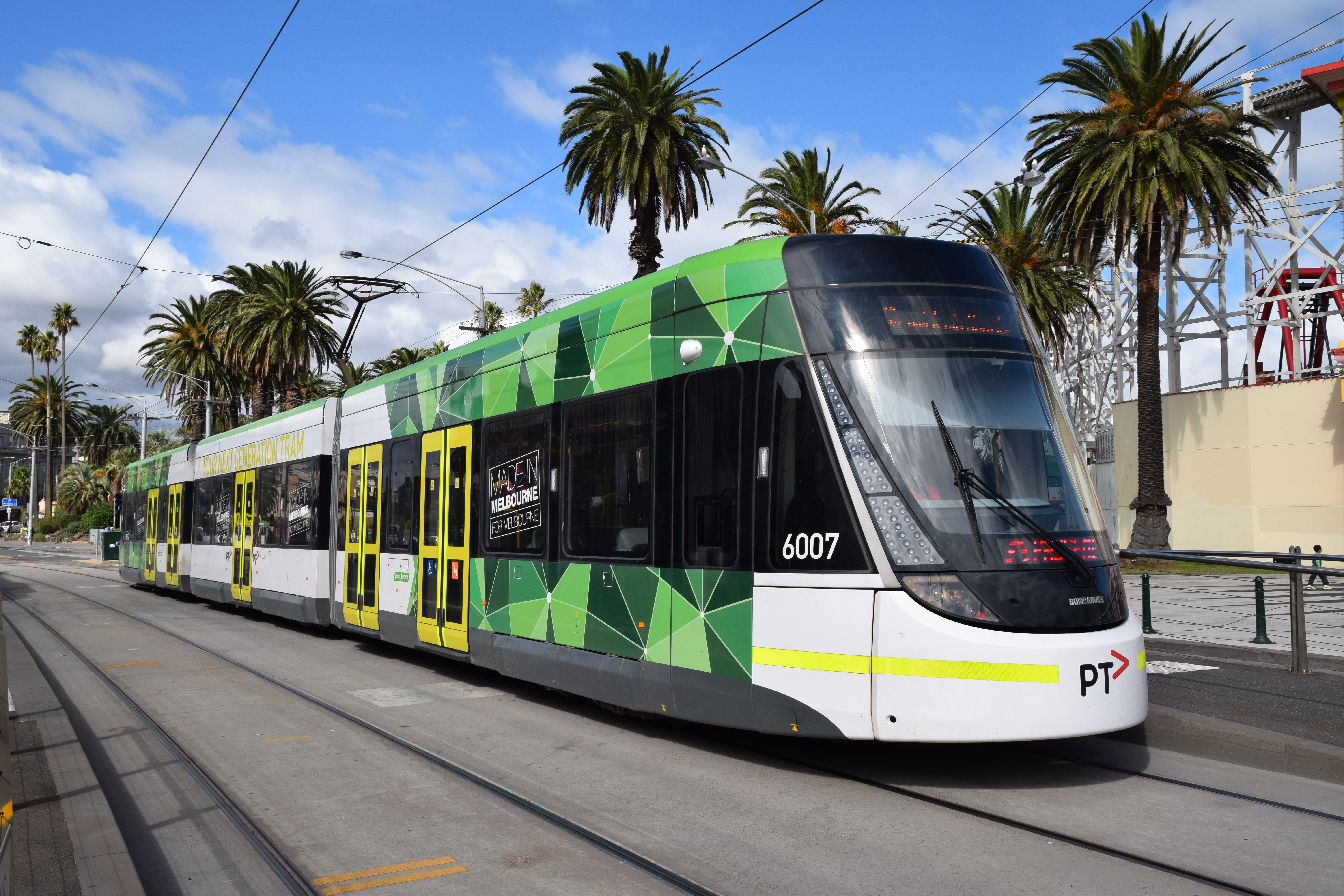 Public Transport Victoria 600 V dc 'E' Class train-tram No.6007 at St. Kilda, Victoria, 11 April 2016. Bombardier (Dandenog) built 38 sets of these 'Flexi Swift' train-trams for PTV in 2013-16.